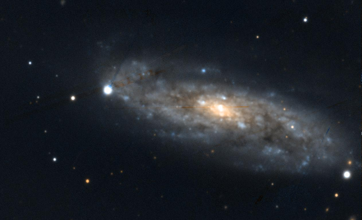 Color image of NGC 3511 created by the stacking of i and g filter images provided by PanSTARRS-1 archive.